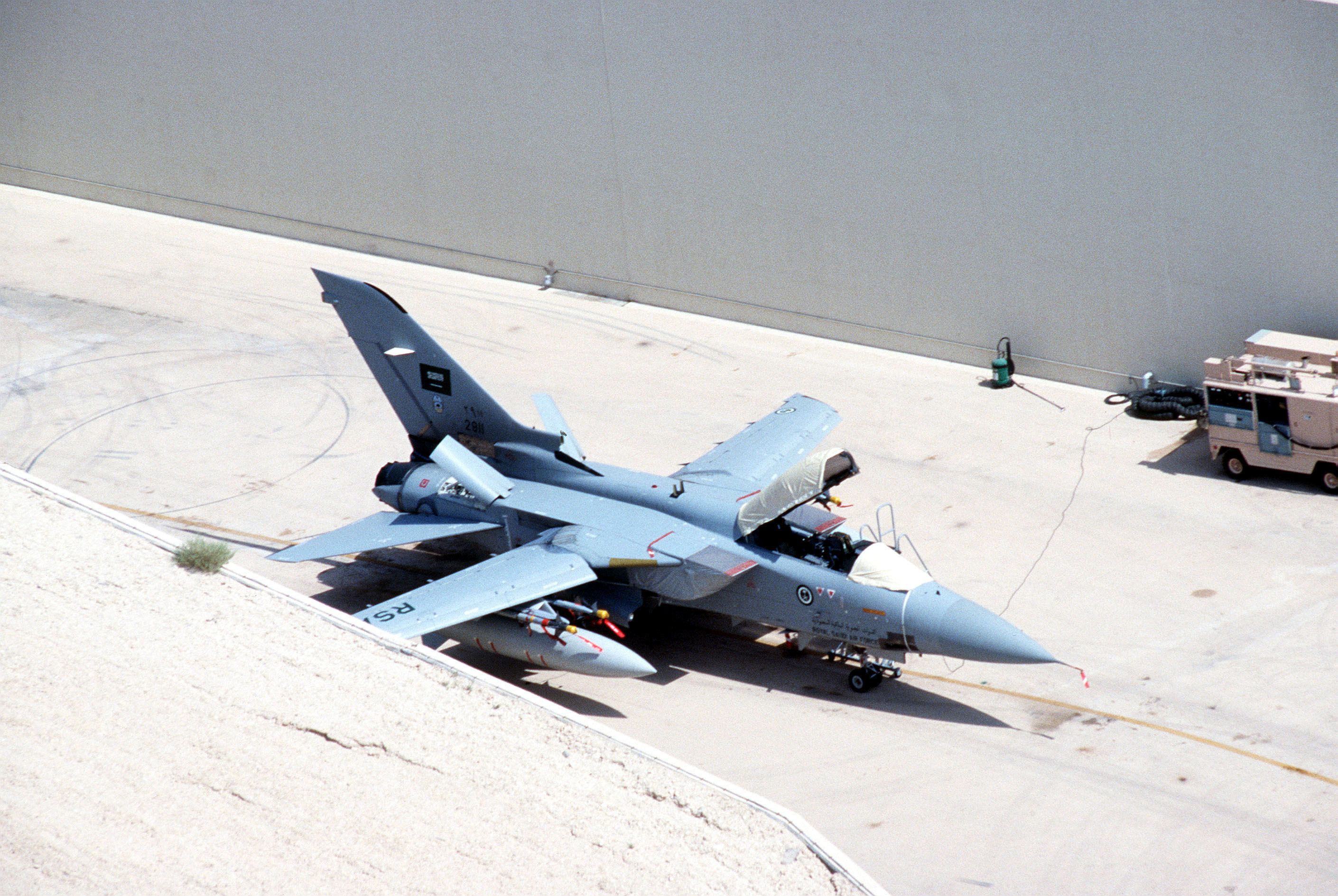 Saudi Arabian Tornado ADV variant (F.Mk 3) of the Royal Saudi air force sits on the flight line during Operation DESERT SHIELD.